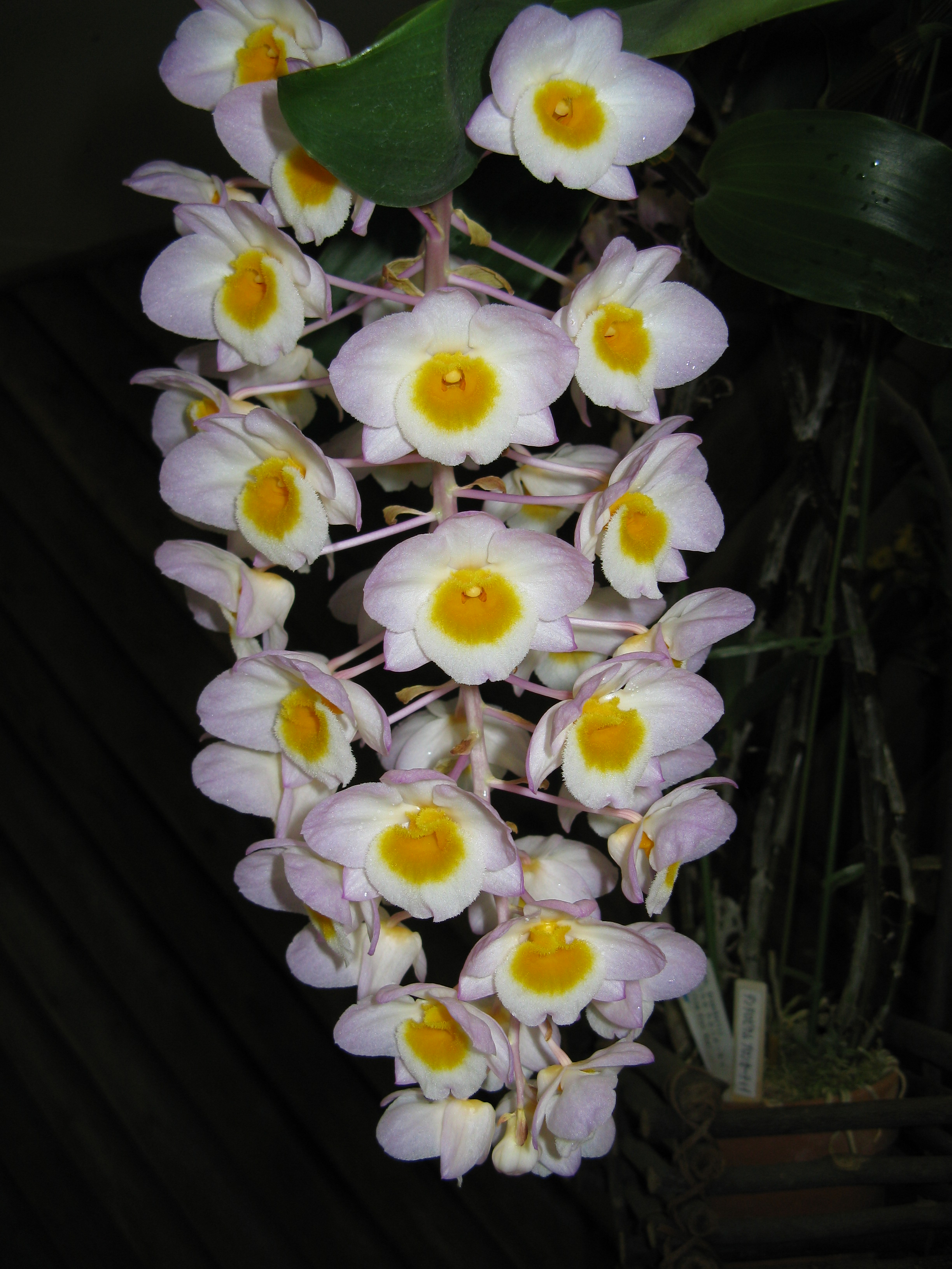 Dendrobium amabile Place:Osaka Prefectural Flower Garden,Osaka,Japan